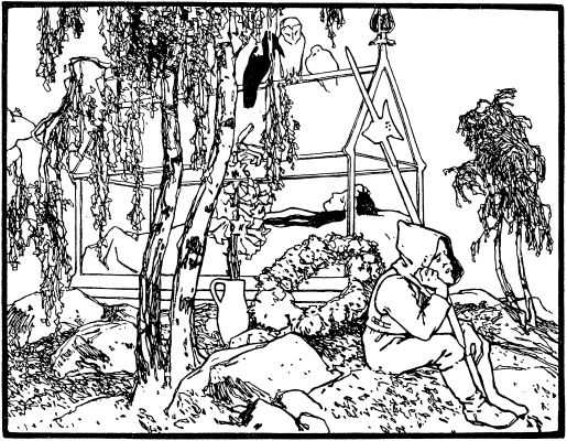 Illustration to Snow White by Otto Ubbelohde